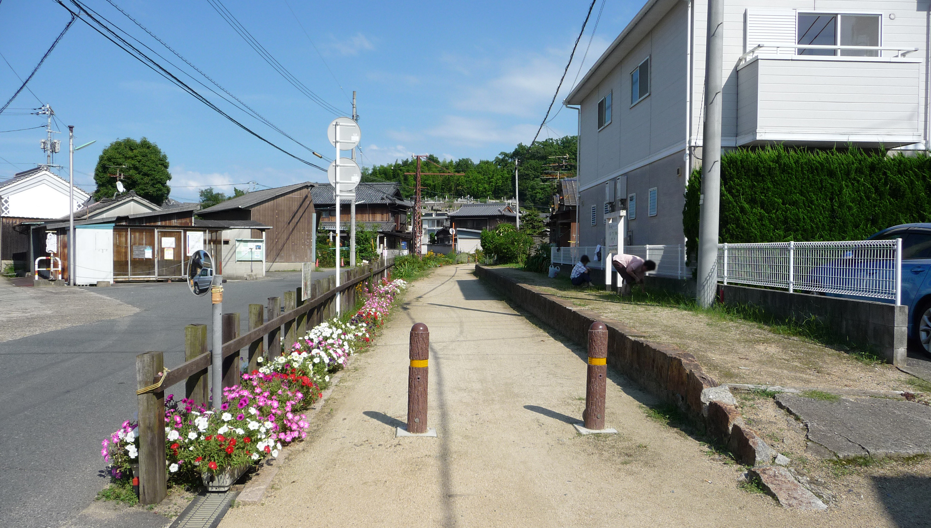 SHIMOTSUI DENTETSU ATU Station（Disused Station）